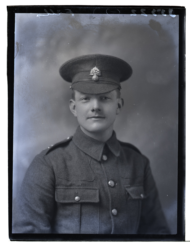 DKW_35522_Fell_L